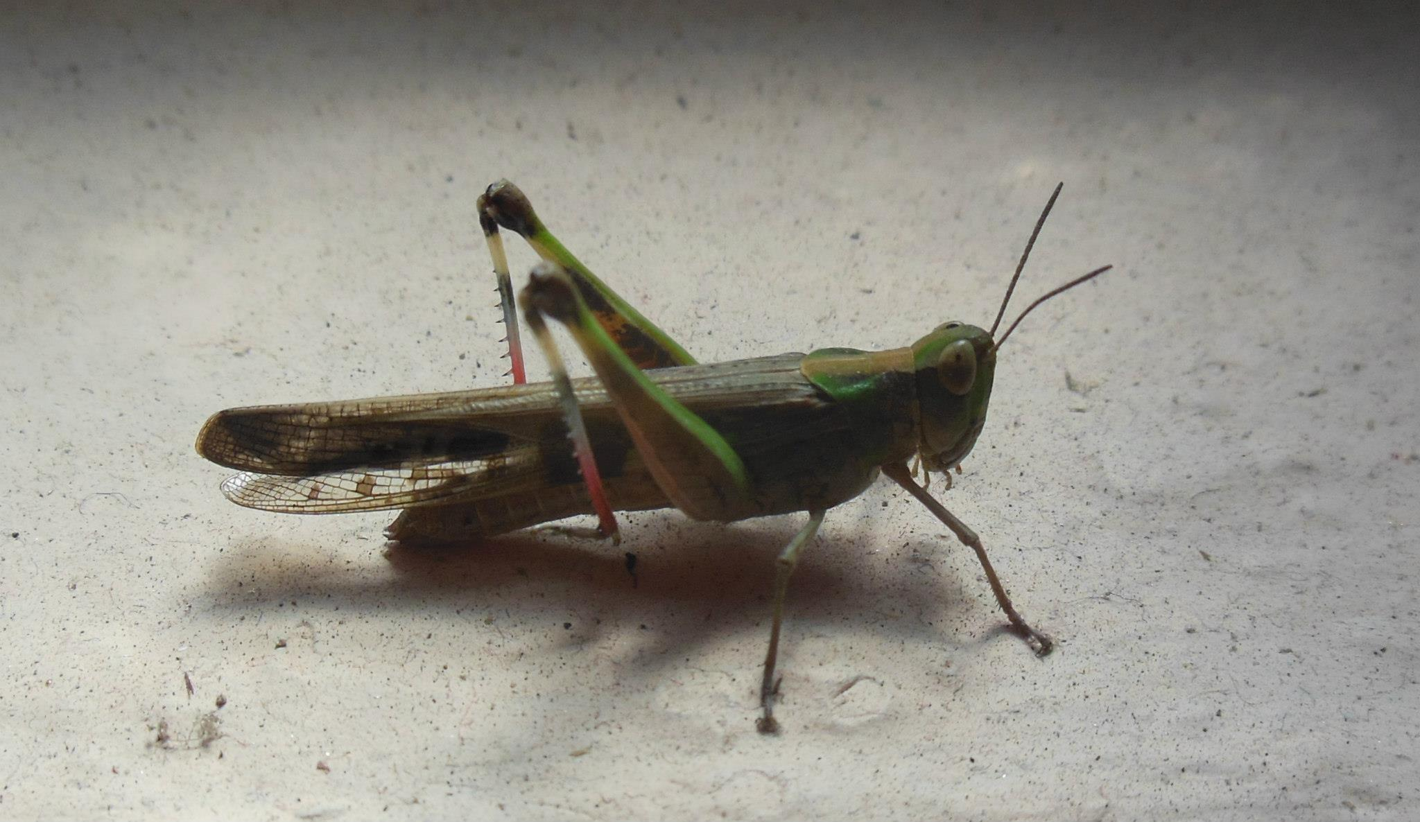 Grasshopper sitting on cemented wall